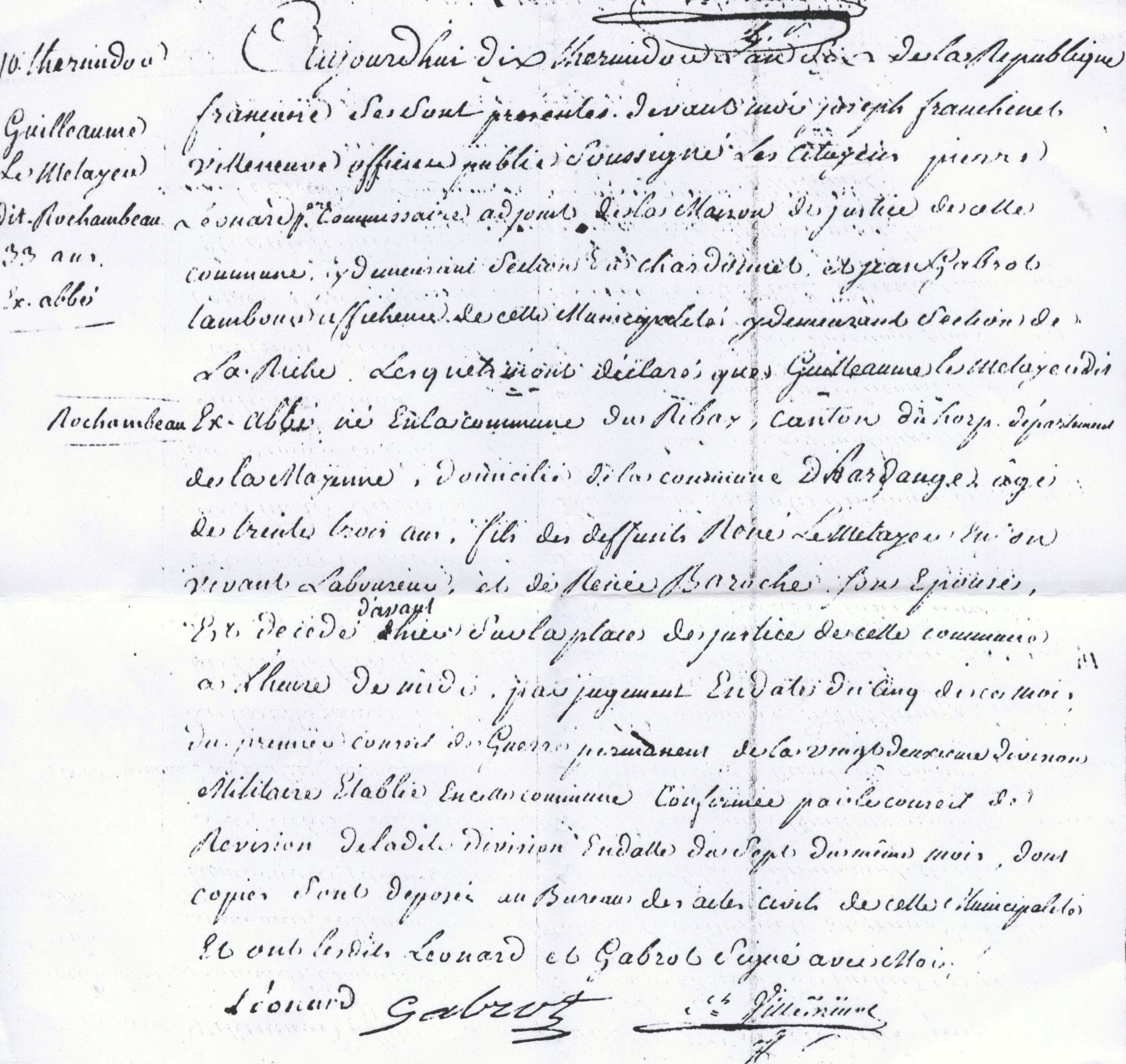 Guillaume Le Métayer (1763-1798). Death certificate.